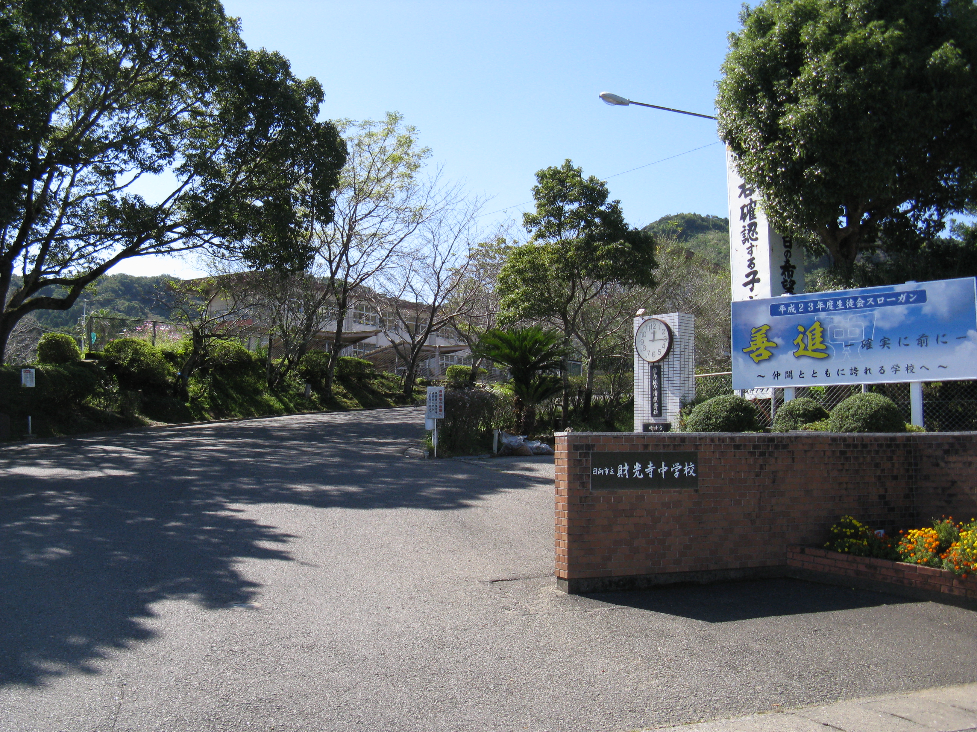 Zaikōji Junior high School.